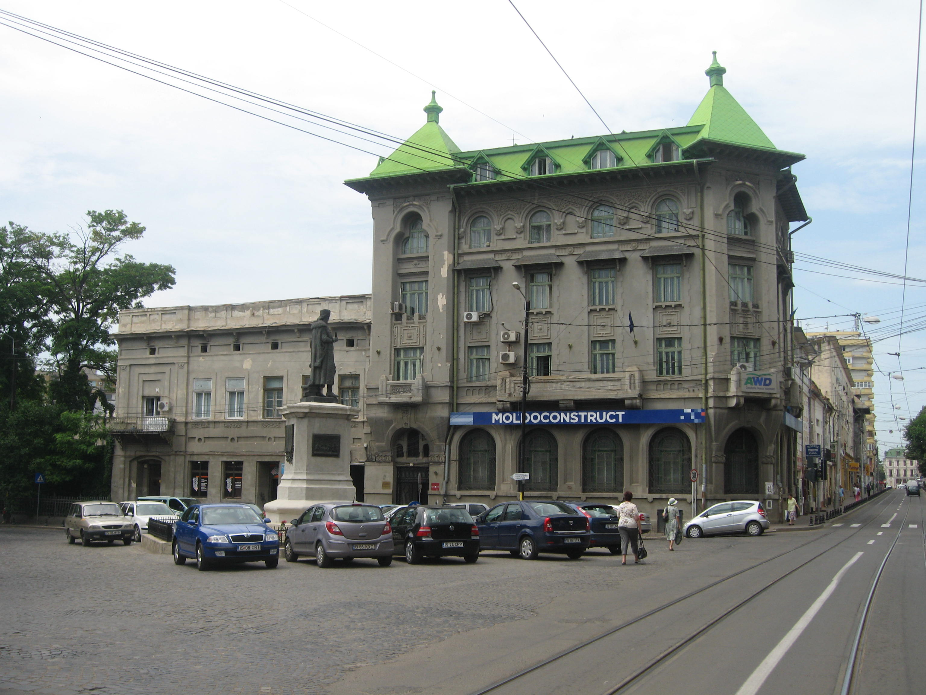 Former Dacia Bank in Iaşi, RomaniaRomână: Banca Dacia din Iași